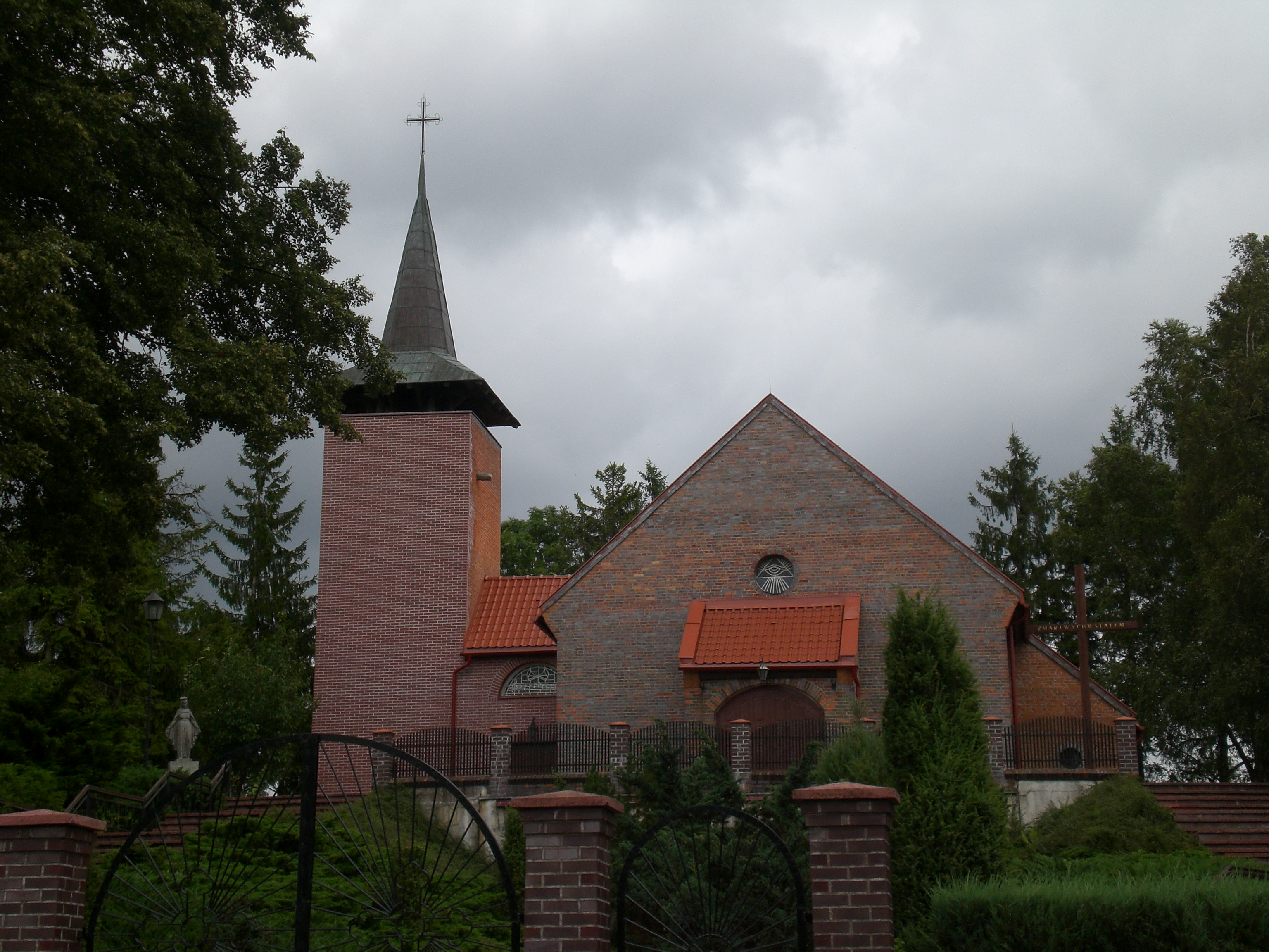 Czarna Dąbrówka - church (bd. 1936)